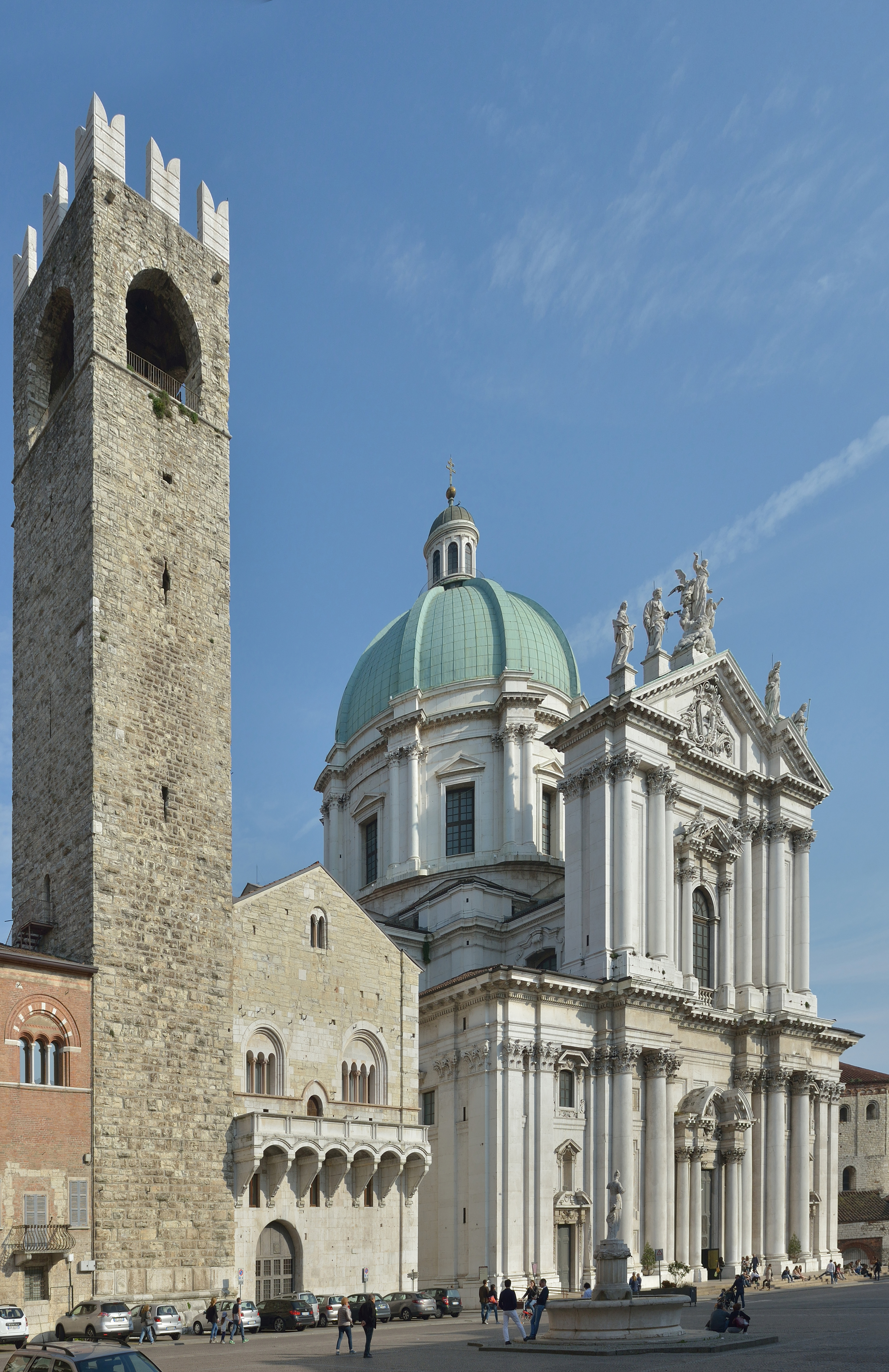 Cathedral and civil buildings in Brescia